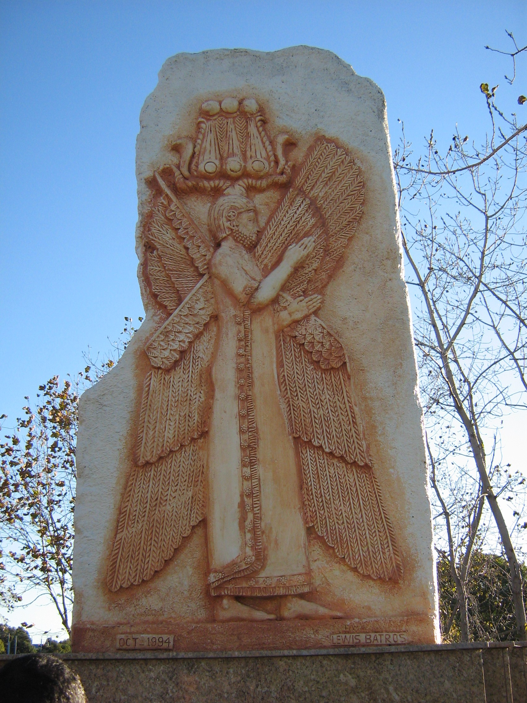 Cyrus the great monument at Sydney Olympic Park